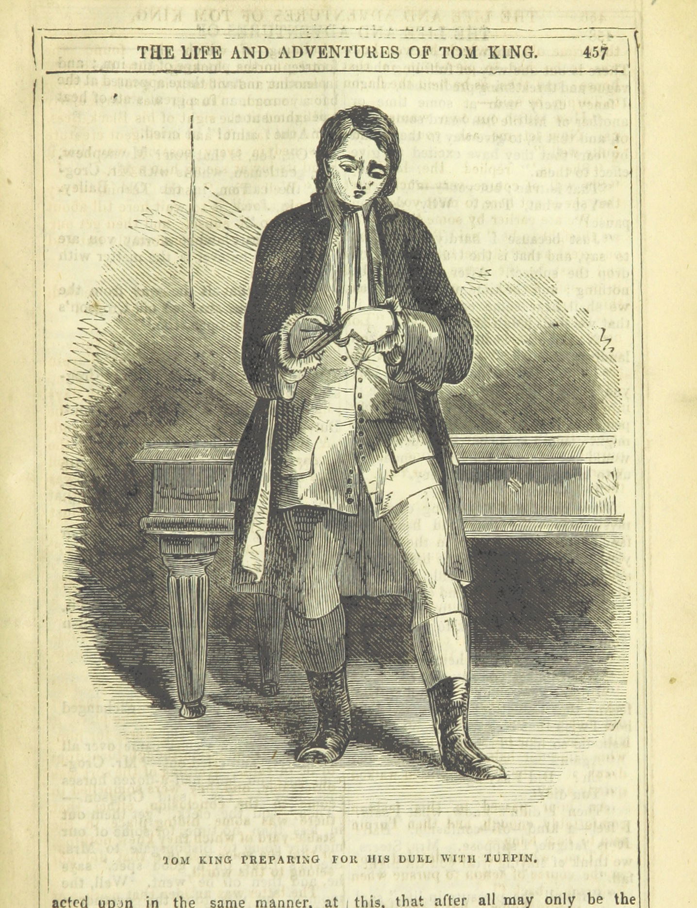 Image taken from: Title: "The life and adventures of T. K" Author: KING, Tom - The Highwayman Shelfmark: "British Library HMNTS 12624.f.22." Page: 465 Place of Publishing: London Date of Publishing: 1851 Issuance: monographic Identifier: 001969070 Explore: Find this item in the British Library catalogue, 'Explore'. Download the PDF for this book (volume: 0) Image found on book scan 465 (NB not necessarily a page number) Download the OCR-derived text for this volume: (plain text) or (json) Click here to see all the illustrations in this book and click here to browse other illustrations published in books in the same year. Order a higher quality version from here. This file is from the Mechanical Curator collection, a set of over 1 million images scanned from out-of-copyright books and released to Flickr Commons by the British Library. Please add the Flickr page URL for the image Please add the British Library system number for the book This tag does not indicate the copyright status of the attached work. A normal copyright tag is still required. See Commons:Licensing.